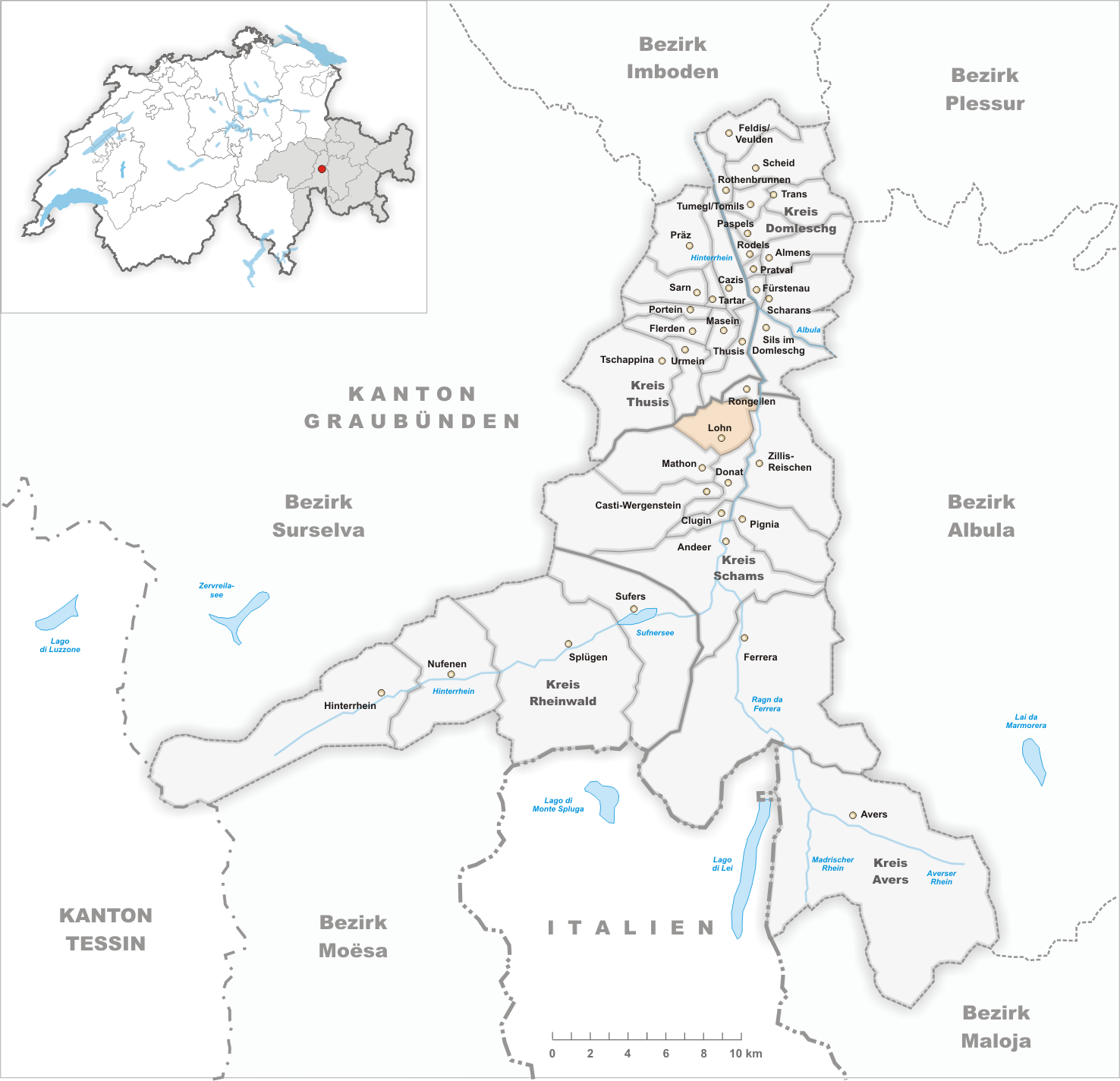 Municipality Lohn